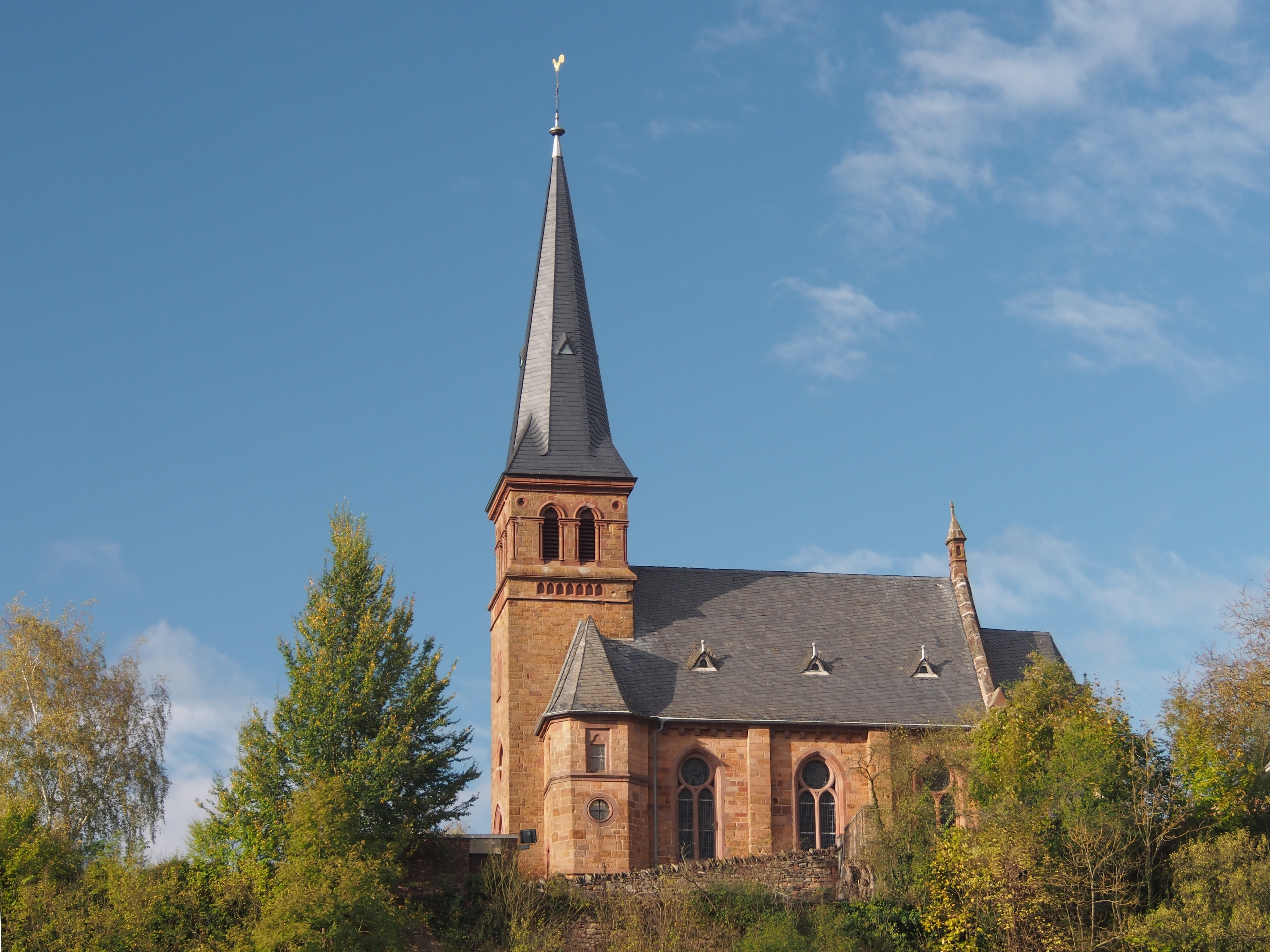 Photographed at Saarburg, Germany.